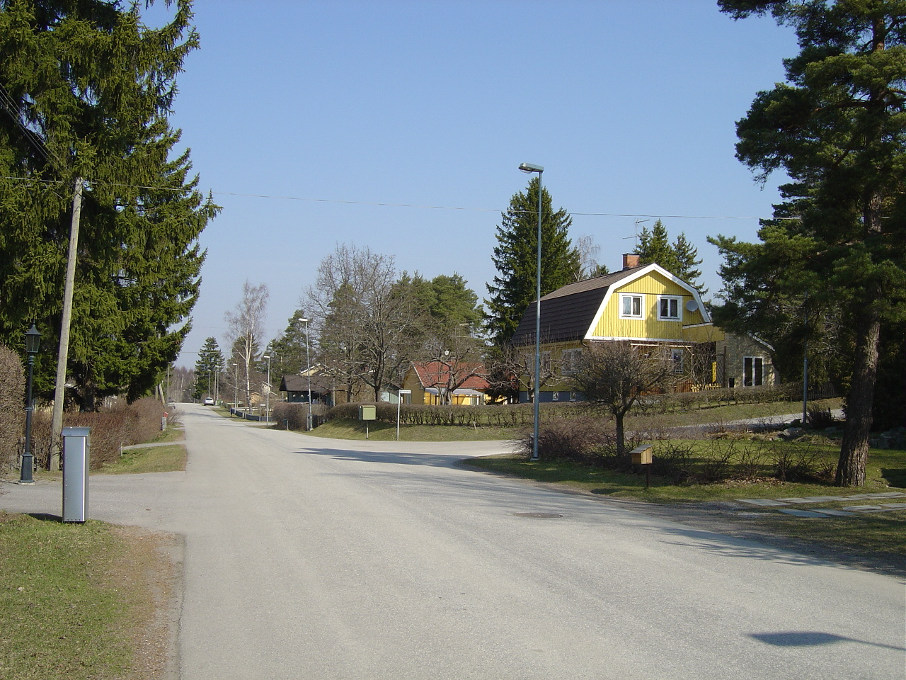 Norrängsvägen in Ormsta, Vallentuna